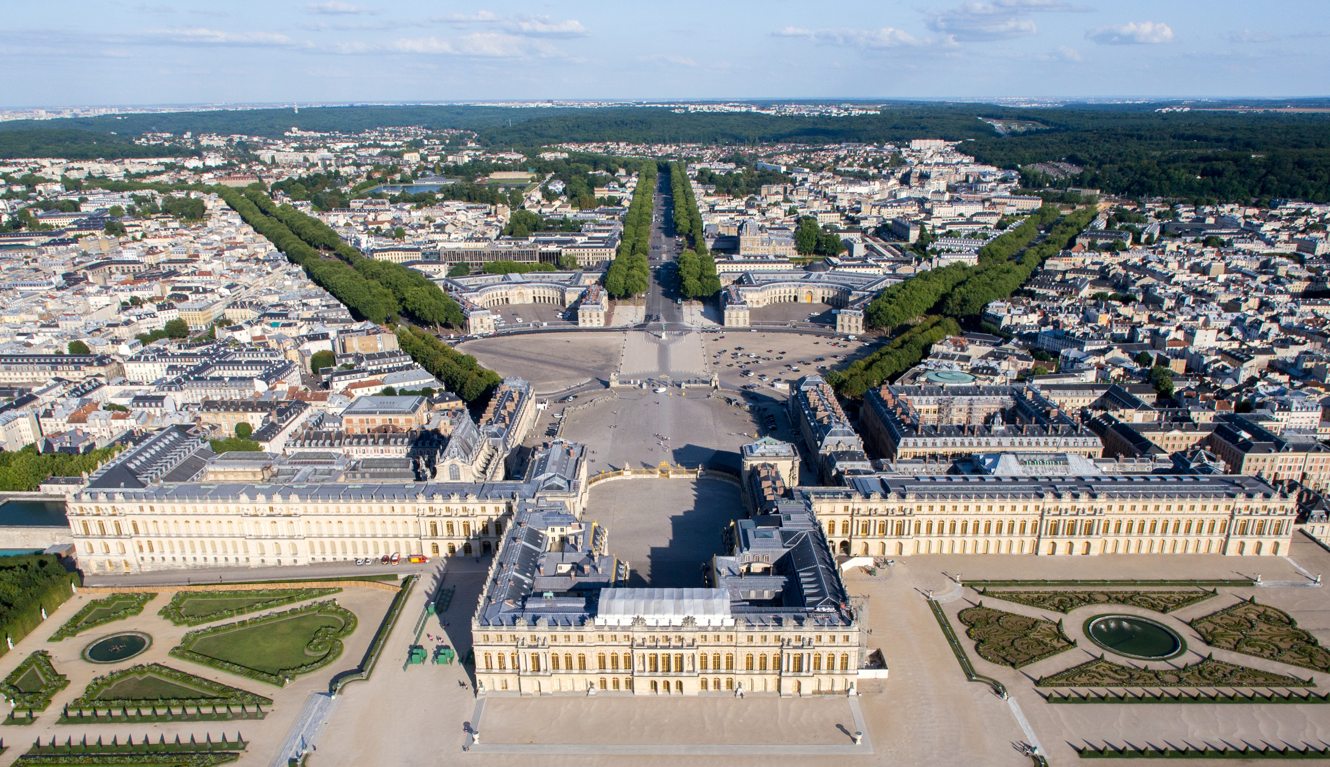 Aerial view of the Palace of Versailles, France